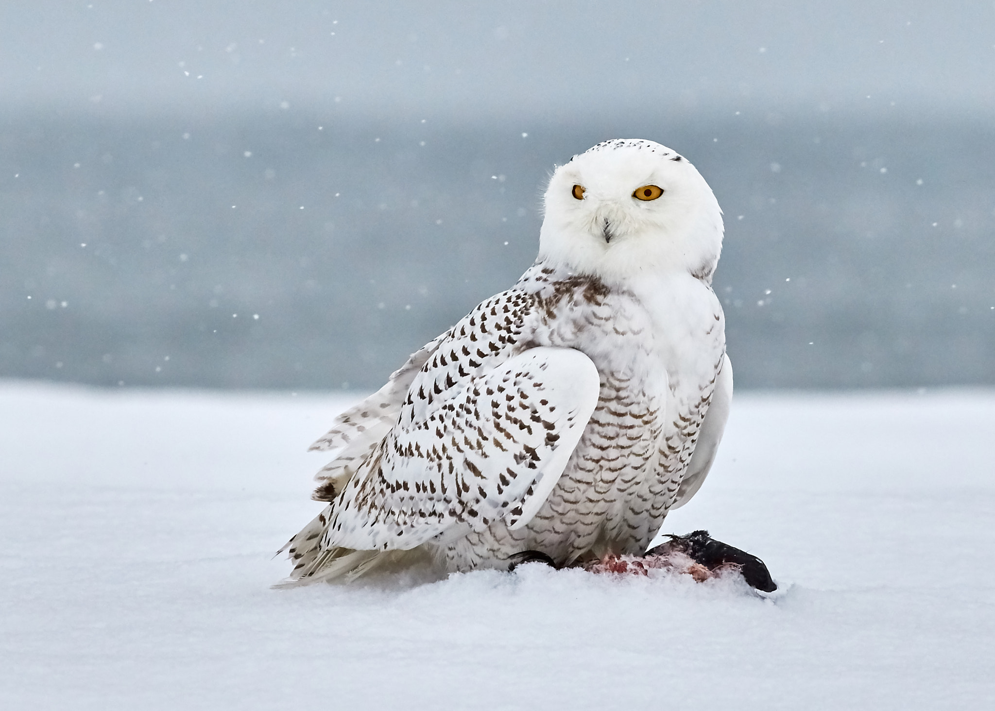 500px provided description: Snowy Owl is Rare bird in New Jersey. He has an electronic tracking device on his back. So I assume he is Higbee or Island Beach. I have been tracking this Snowy Owl for 2 days. 4- 5 hours walking around the beach for each days. FINALLY, I found it. [#winter ,#bird ,#cold ,#nature ,#beach ,#lighthouse ,#snow ,#wildlife ,#weather ,#freeze ,#wild ,#owl ,#lucky ,#harsh ,#snowy ,#rare ,#seabird ,#wild animal ,#pack ice ,#cold temperature ,#snowyowl ,#polar climate ,#higbee ,#NewJersey ,#winterbird ,#rarebird ,#SNOWstorm]